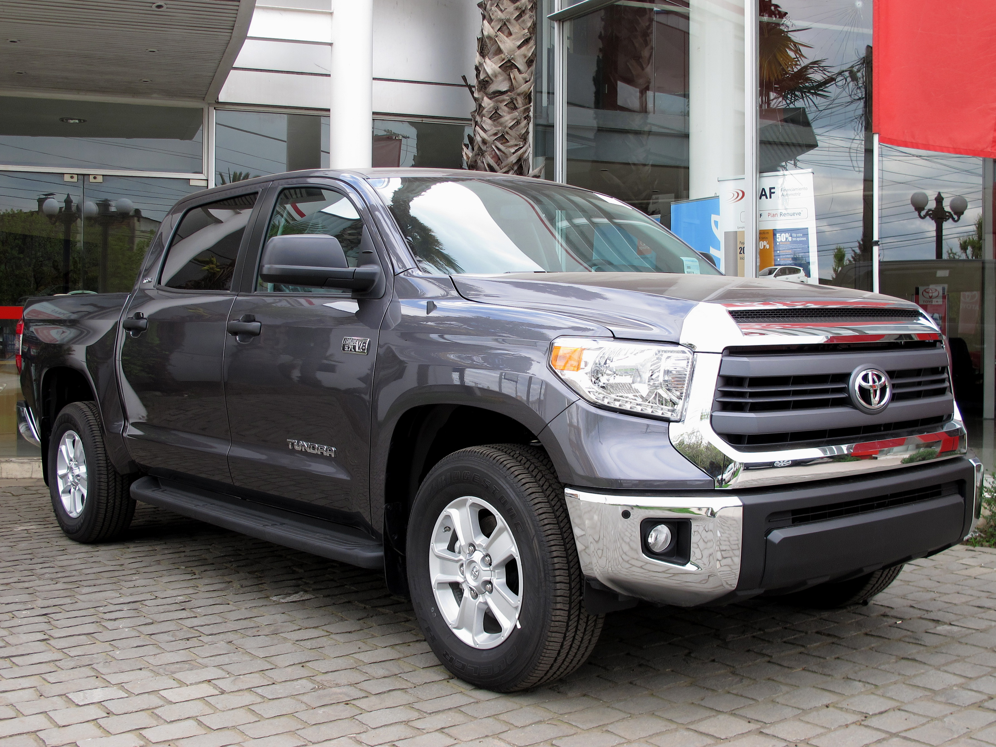 Toyota Tundra 5.7L SR5 Crew Max 2015